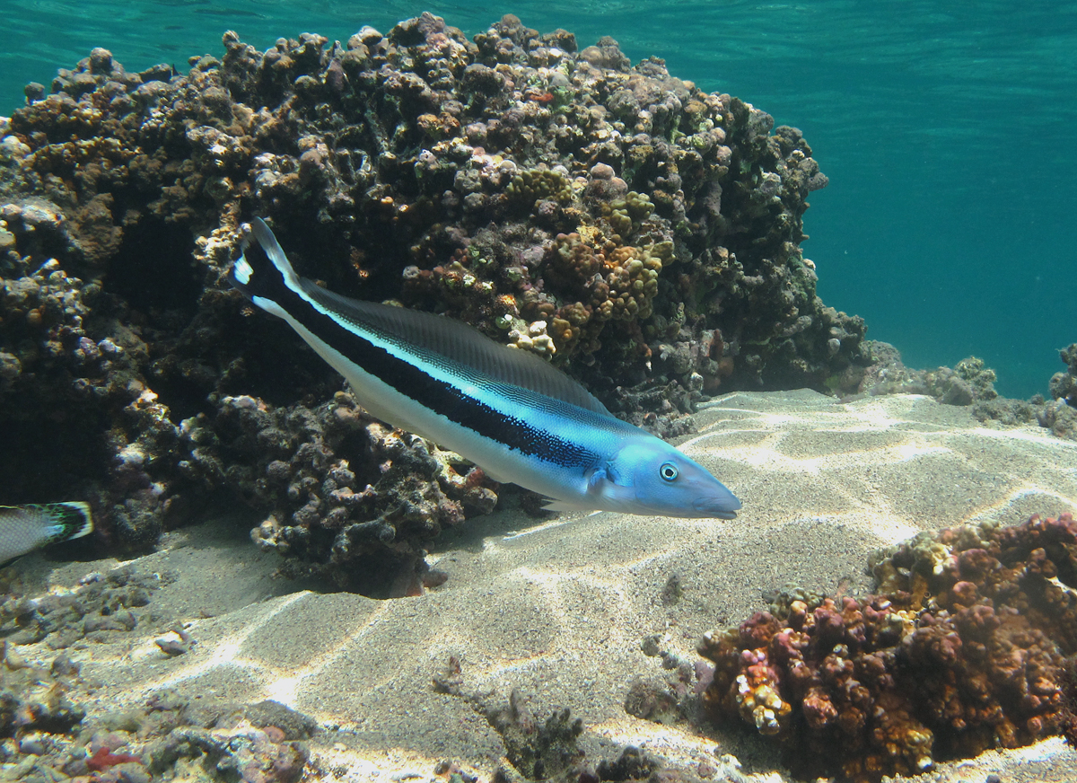 A blue blanquillo (Malacanthus latovittatus) seen in Réunion island's lagoon.